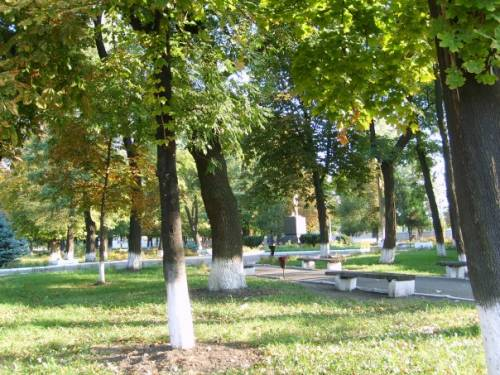 Shevchenko Park in Podilsk, Odessa Oblast, Ukraine